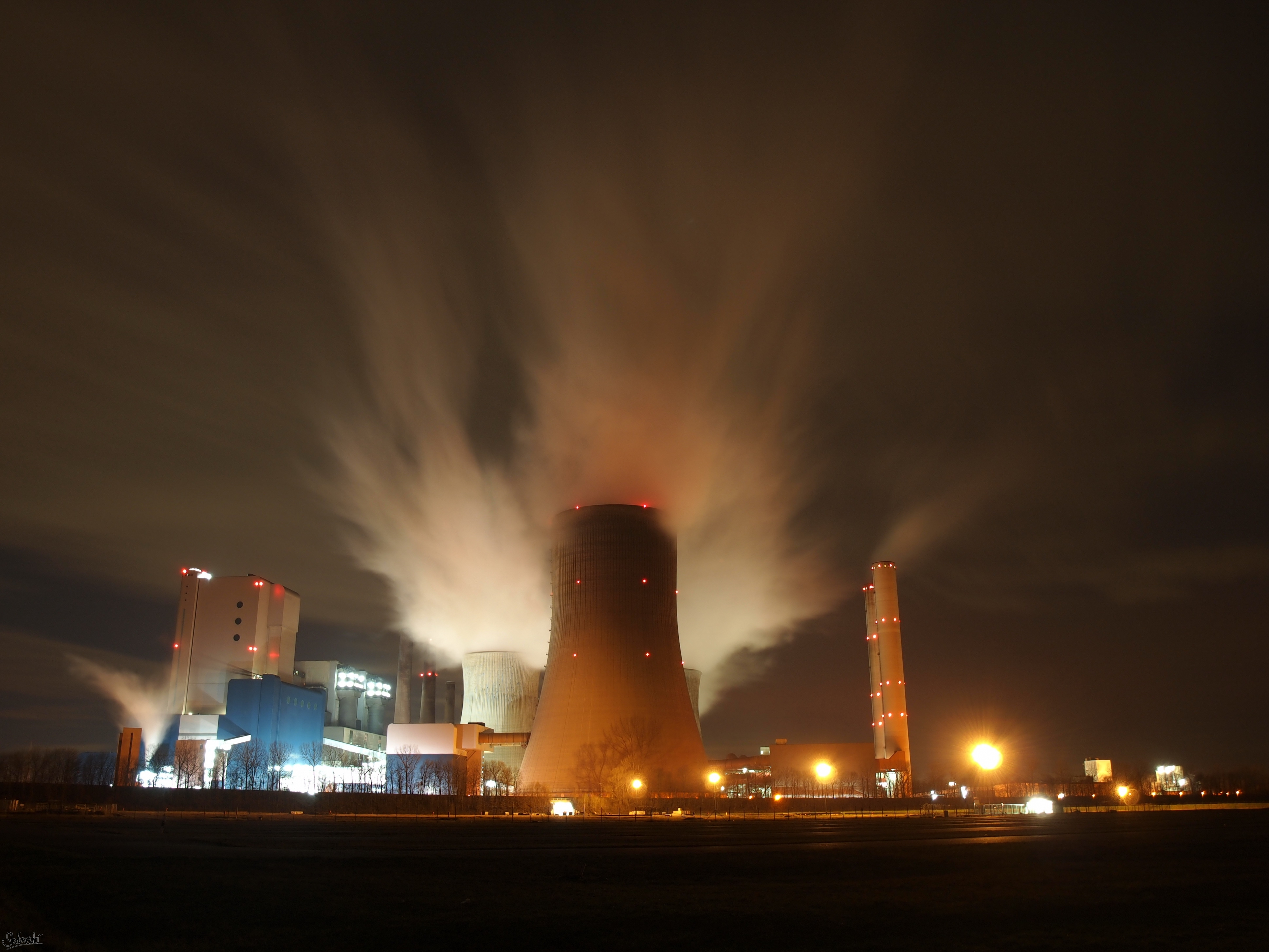 Power Plant Niederaußem by night